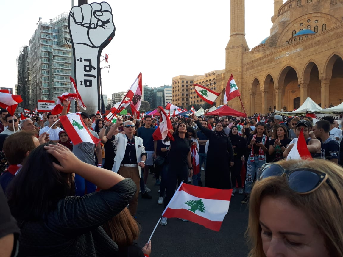 Sunday of Unity - Protests in Beirut 3 November 20019